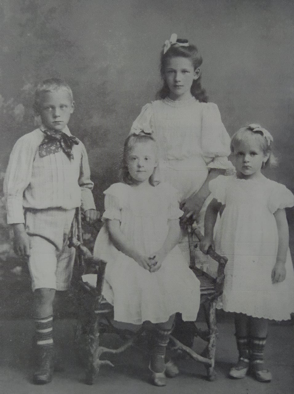 Alice Bešević, a pianist, wife of Serbian painter Nikola Bešević, with her brother and sisters. Српски (ћирилица): Алиса Бешевић, суптуга Николе Бешевића и пијанисткиња, у детињству са братом Илмаром и сестрама Силвијом и Хером.